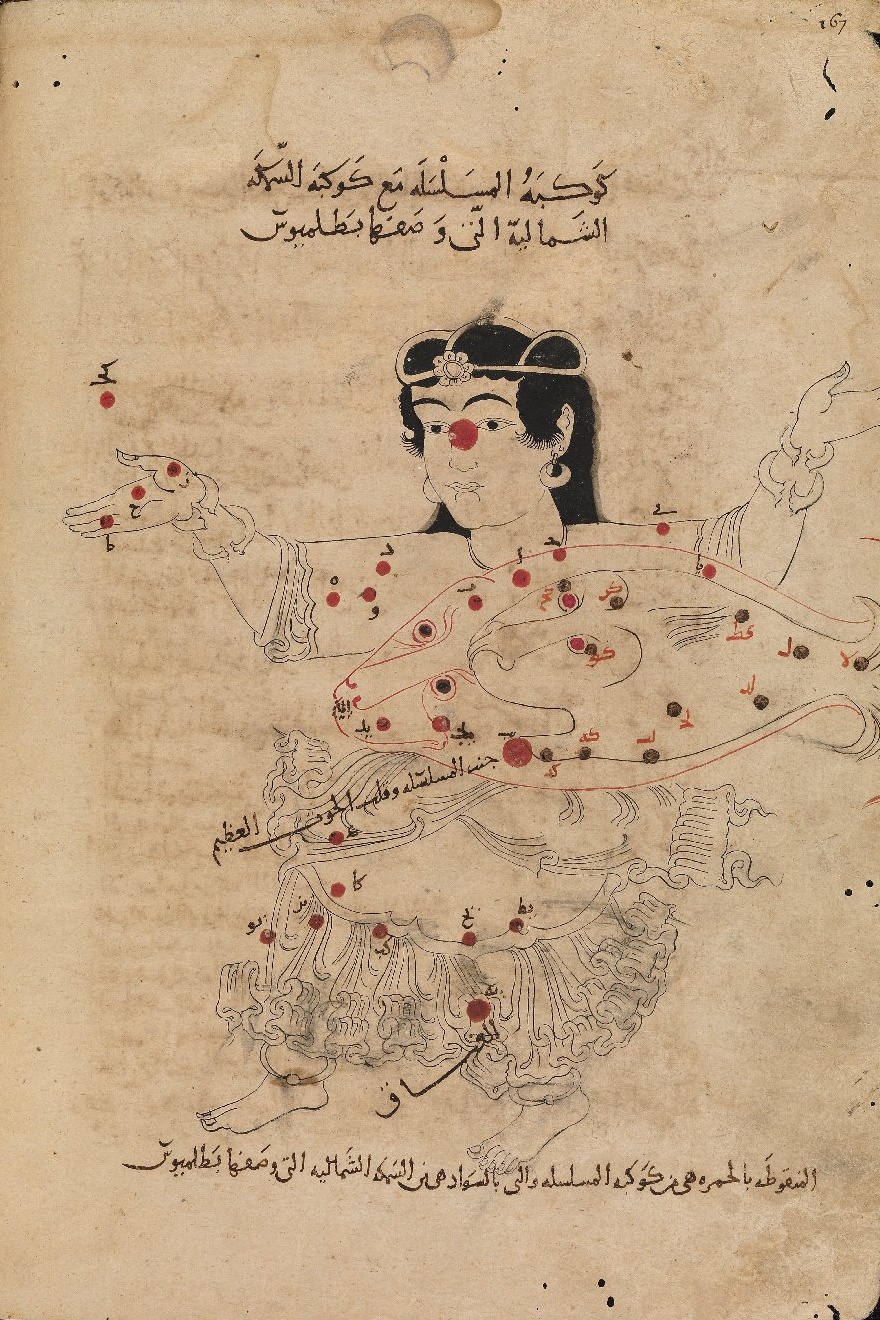 Al-Sufi's Book of the Fixed Stars, a revision of Ptolemy's Almagest with Arabic star names and drawings of the constellations. Dated 1009-10 (A.H. 400); colophon, p. 419. Title: Kitāb Ṣuwar al-kawākib (al-thābitah) [Book of pictures of the (fixed) stars] Type of Object: Manuscript Material: paper Dimensions: 265 x 180 mm. Date of Origin: 1009-1010